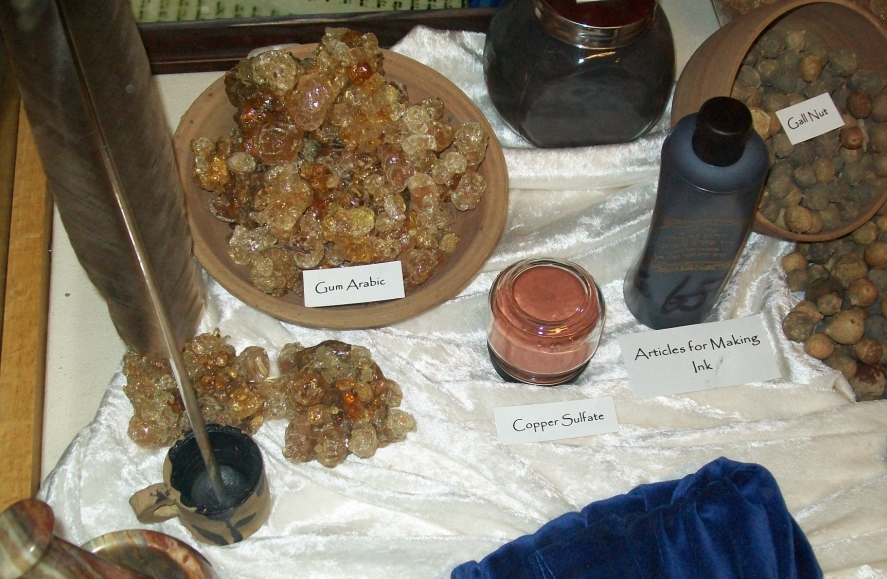 Photo shows the ingredients used to prepare ink for Hebrew scrolls today.